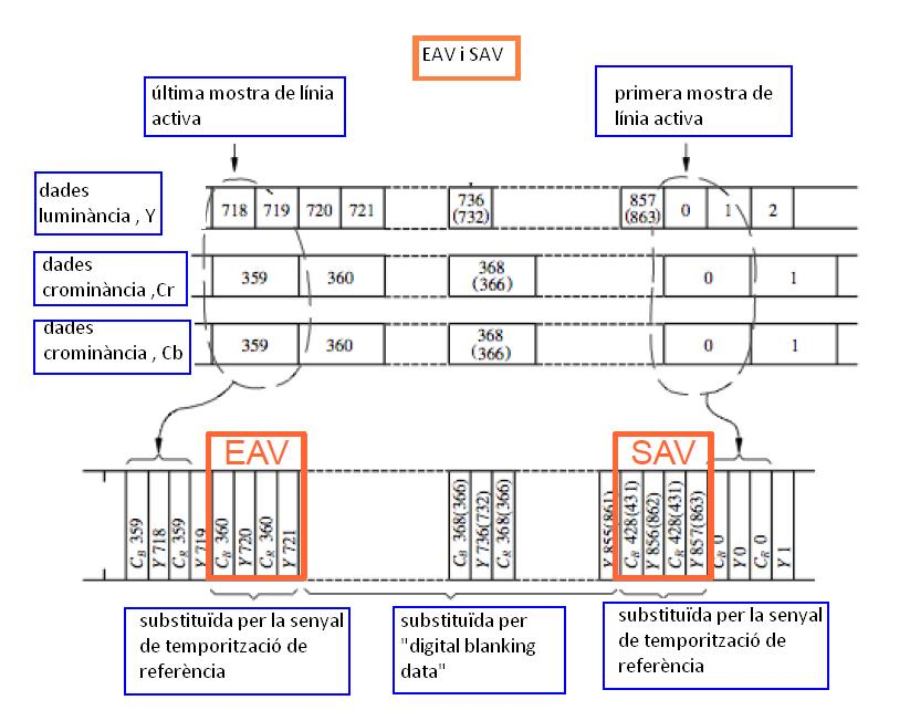 EAV i SAV